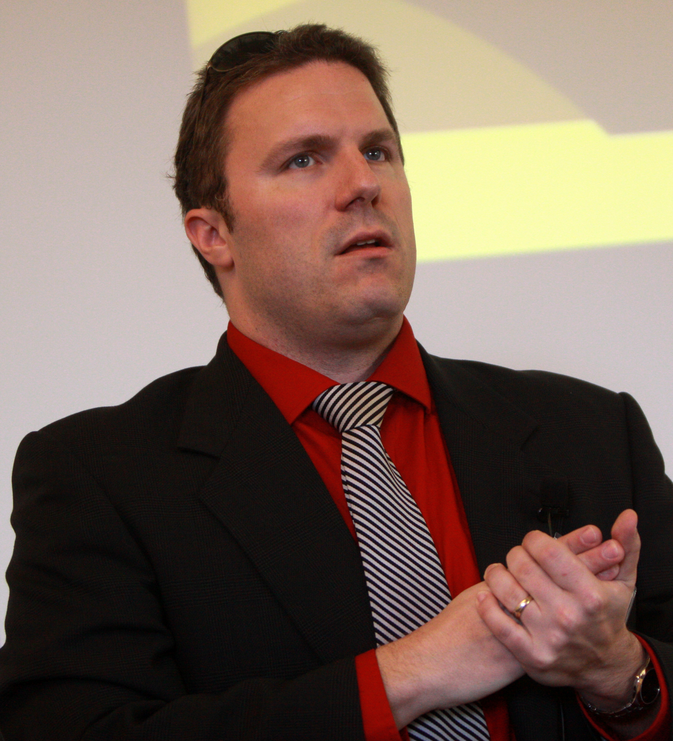 Jason Brennan speaking at the 2013 Students for Liberty Arizona Regional Conference at Arizona State University in Tempe, Arizona.